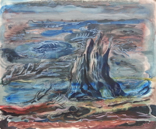 William Geissler artist. Tree stump in wood after destruction in a storm. Watercolour, gouache, pen and ink. 1946.